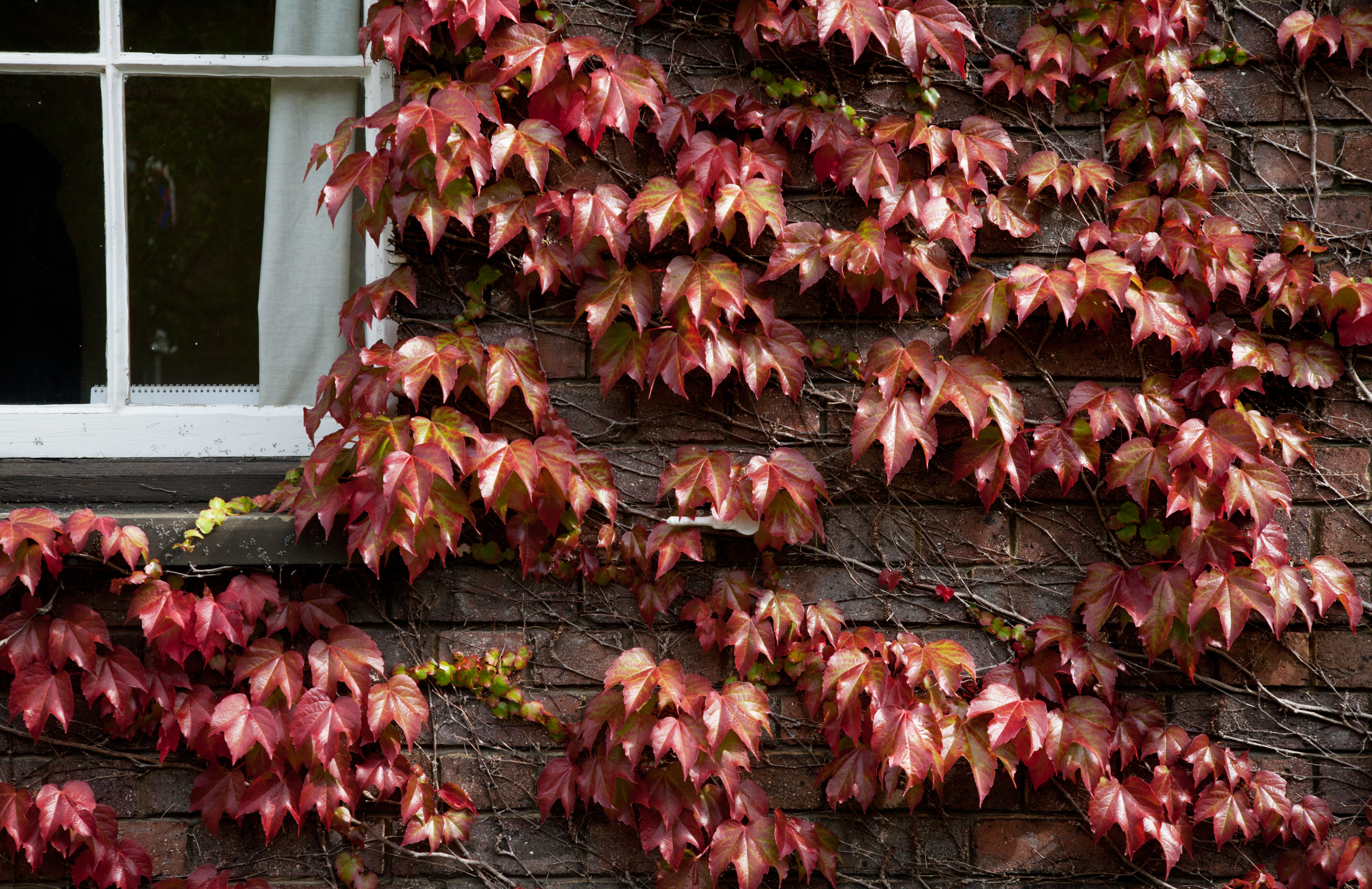 Japanese Creeper growing over the walls of the University of Cambridge, UK